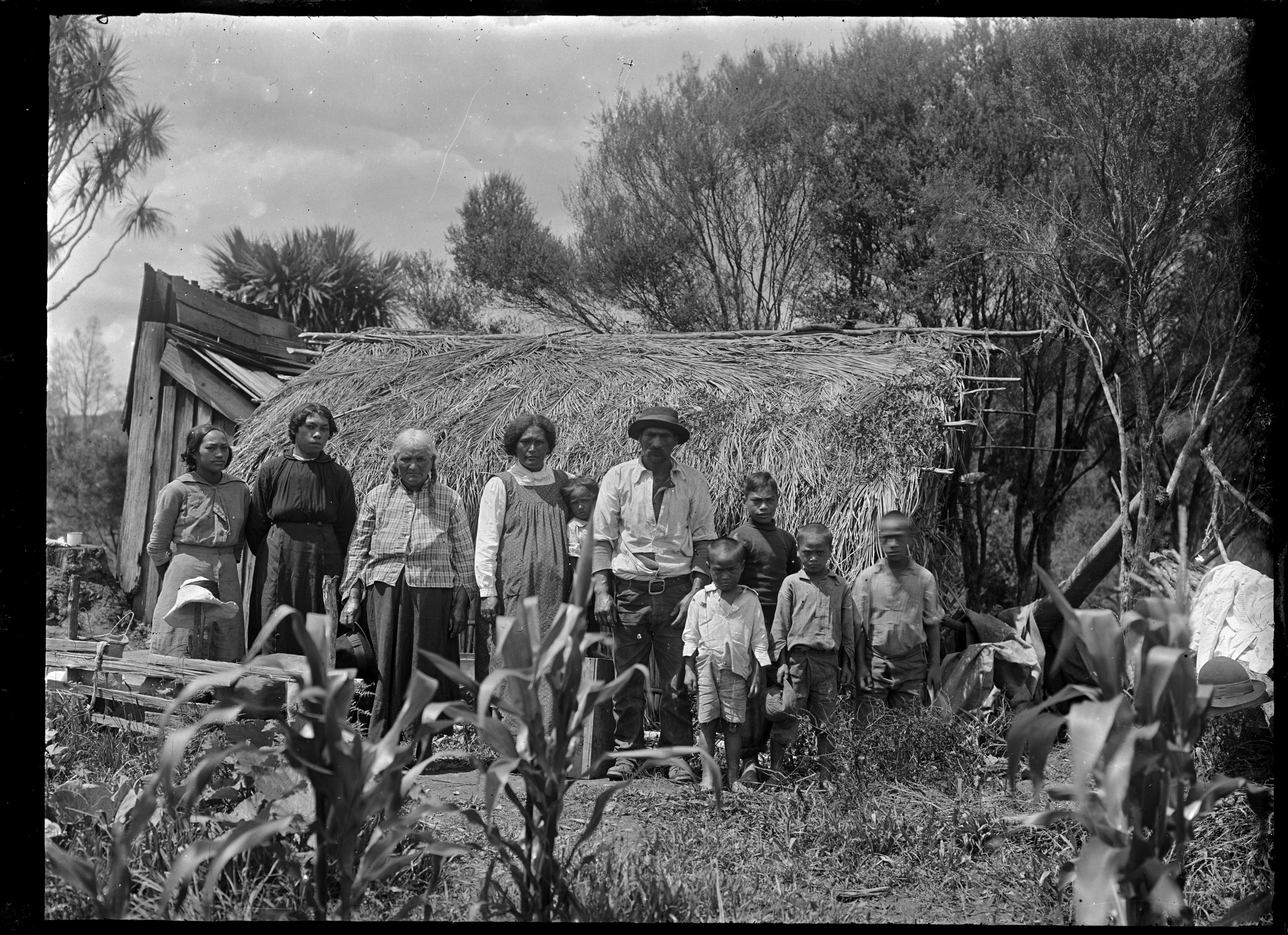 View of Charlie (?), a Maori and his family standing outside a whare thatched with palm fronds. There is an older woman, Charlie and his wife?, two younger women, and five children, all wearing European dress. Photograph taken by Albert Percy Godber, in 1918.